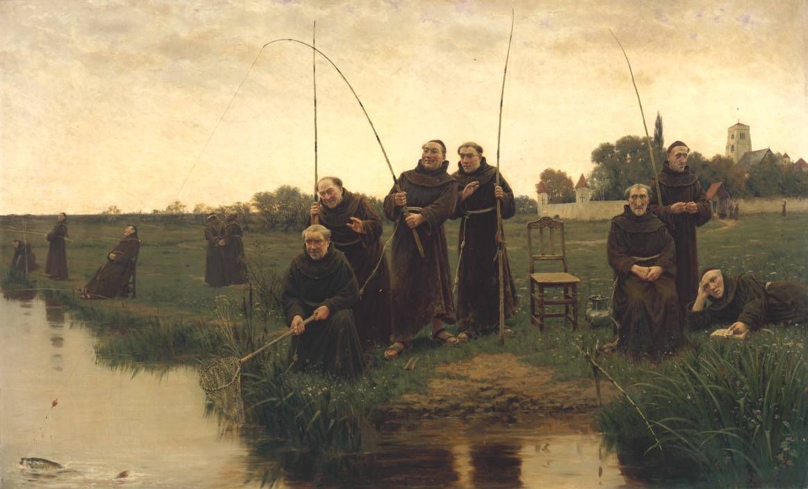 Thursday (Tomorrow will be friday)